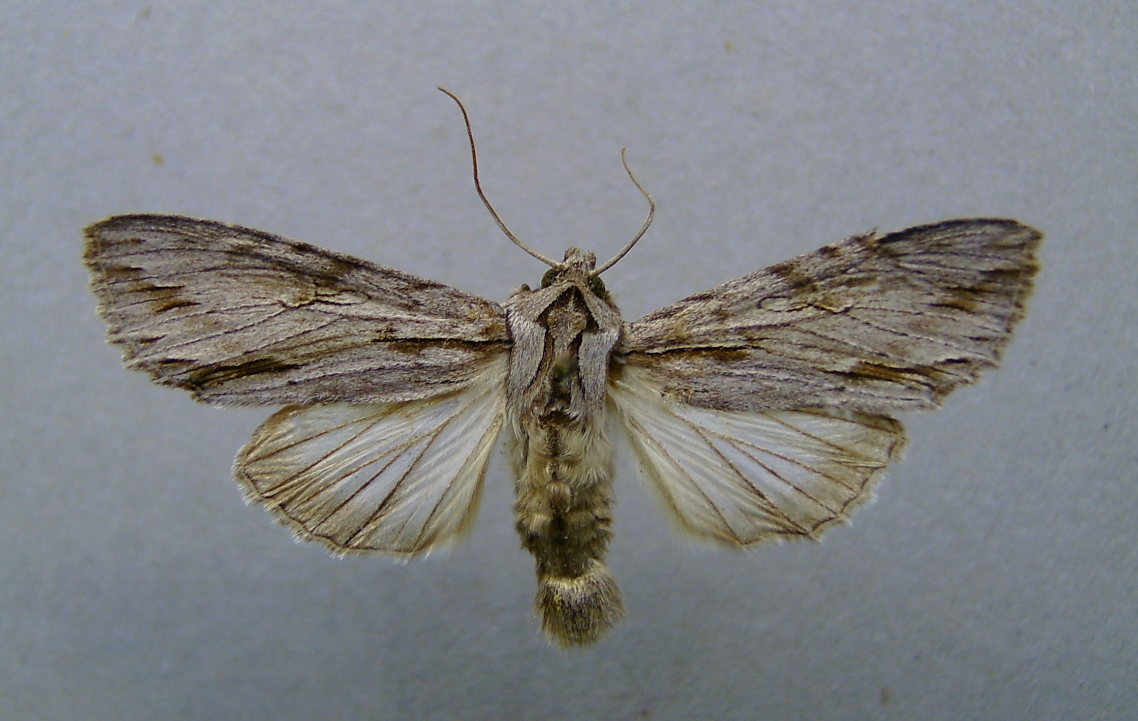 Auchmis detersa, Oberaudorf, Bavaria, Germany